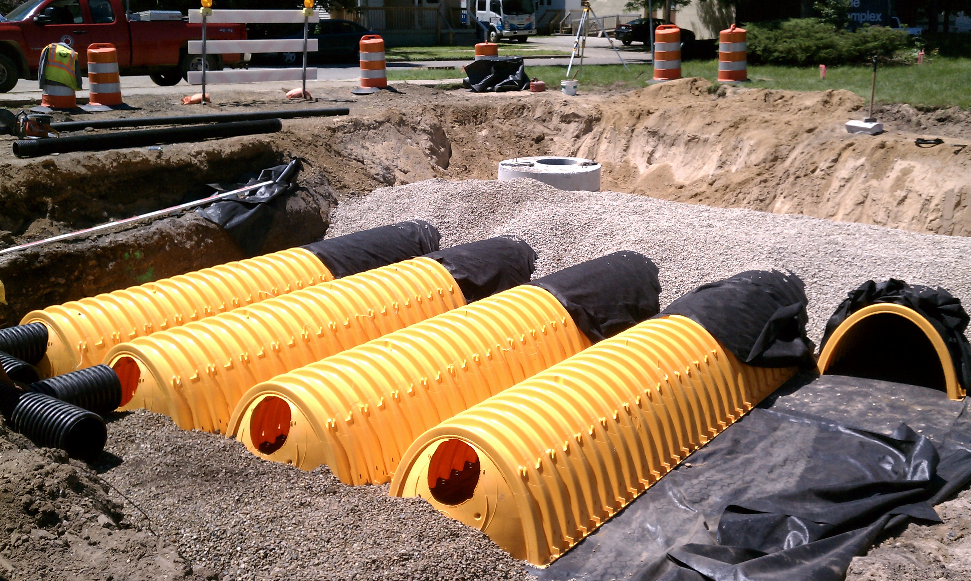 A partially-completed stormwater detention system. There is a base layer of stones, covered by fabric, upon which are placed the yellow water detention containers. The containers themselves are covered with fabric, then overlayed with stone. Manholes at three of the four corners handle inlet and outlet stormwater flows.